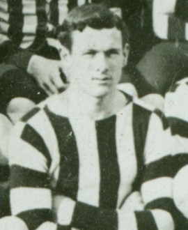 Photograph of Artie Freeman in1908 .